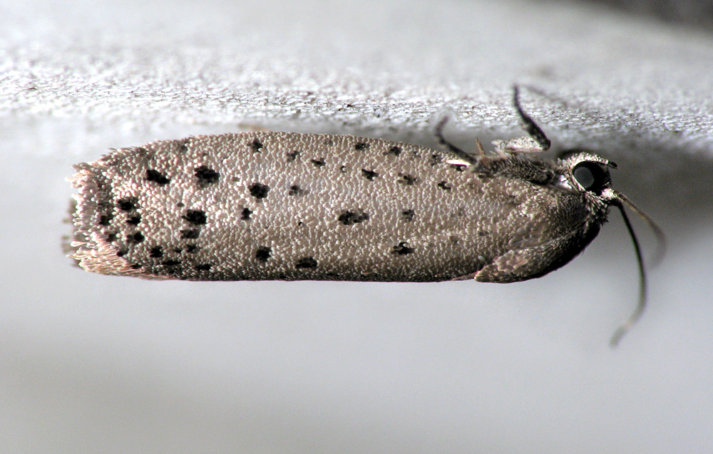 Mimosa Webworm Moth, Homadaula anisocentra. Hodges #2353 "I spotted this moth one night - no, wait, he was already spotted! XD Hanging out over my door. I've only seen it that once. Little tiny micro moth."